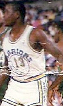 Golden State Warriors' forward basketball player Larry Smith during a January 9, 1988 home game against the Dallas Mavericks.